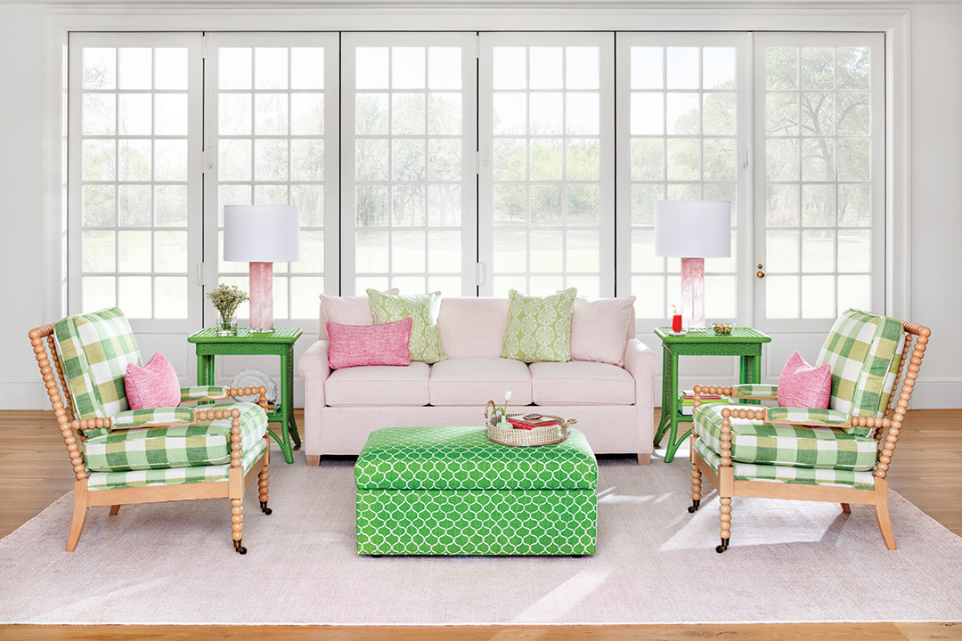 Maine Cottage Monty Sleeper Sofa in Shore Bet, Leg Finish Nordic. Tilly Chairs in Checkmate: Sour Apple, Leg Finish Nordic. Made by Maine Cottage.